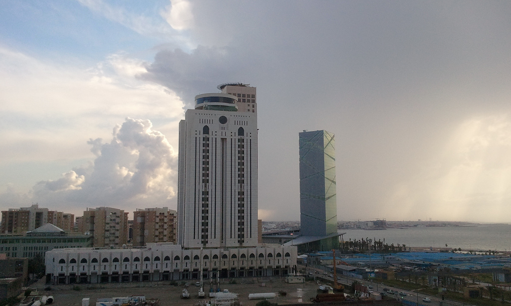 Tripoli Rain